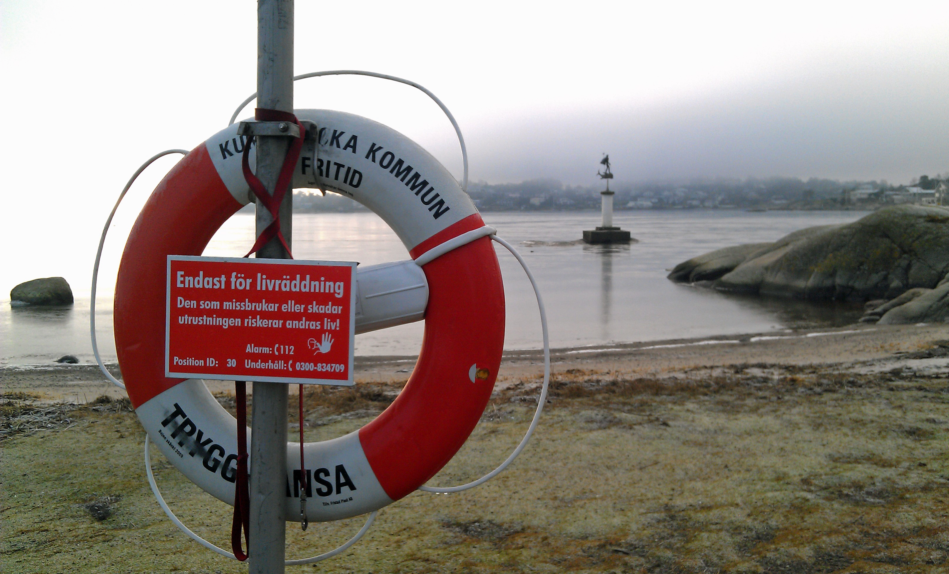 Gottskär in Onsala, as seen from the island Utholmen, in December 2011.